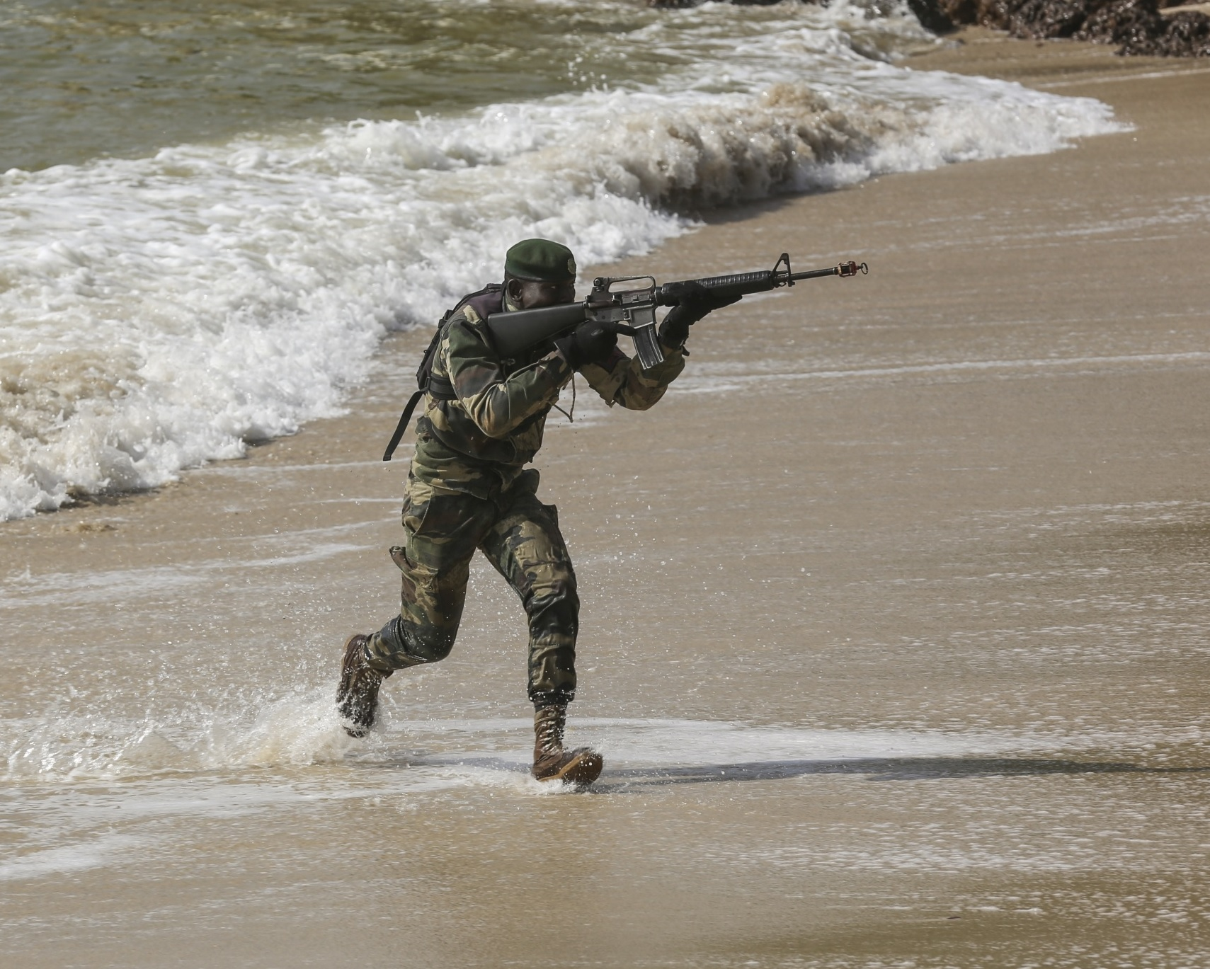 A Compagnie Fusilier de Marin Commando moves up the beach during the final exercise with U.S. service members in Dakar, Senegal, Sept. 17, 2015. The Marines and Coast Guardsmen with Special-Purpose Marine Air-Ground Task Force Crisis Response-Africa spent four weeks training the COFUMACO on basic infantry tactics and small-boat operations as a part of a Maritime Security Force Assistance mission to increase interoperability with Senegal’s and strengthen the bond between the partner nations. (U.S. Marine Corps photo by Cpl. Olivia McDonald/Released)